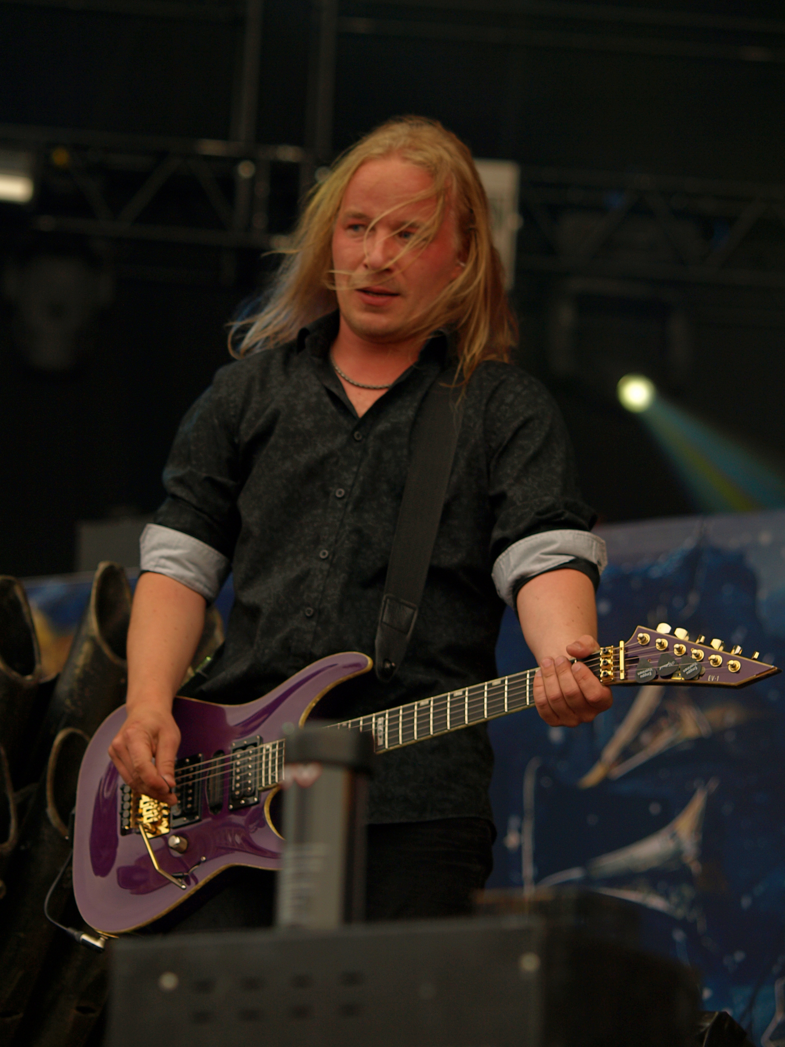 Finnish band Nightwish at Tuska Open Air 2013